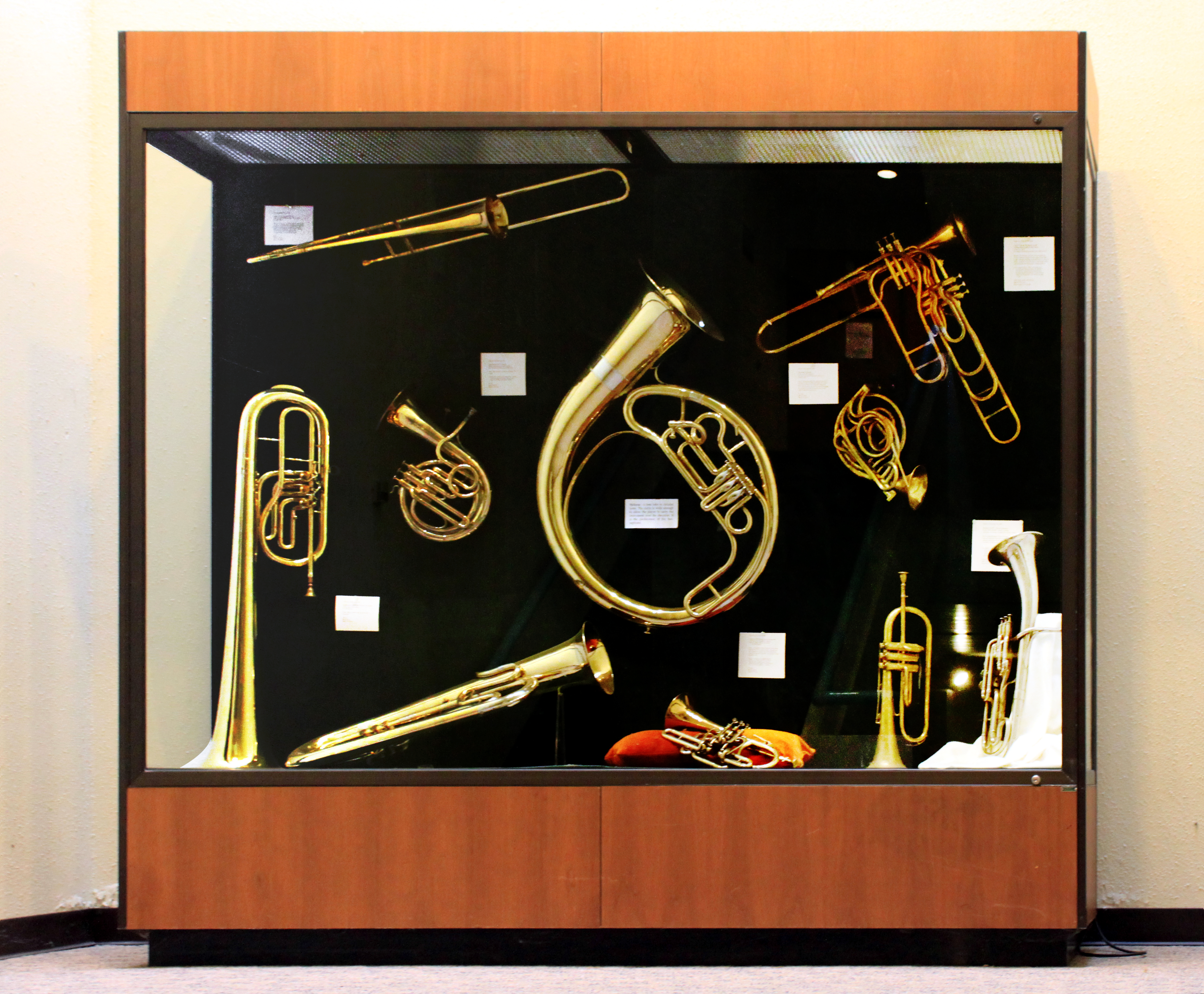 Original description: Display of the Stearns Collection of Musical Instruments, University of Michigan School of Music, Theatre and Dance, Earl V. Moore building, 1100 Baits Avenue, Ann Arbor, Michigan